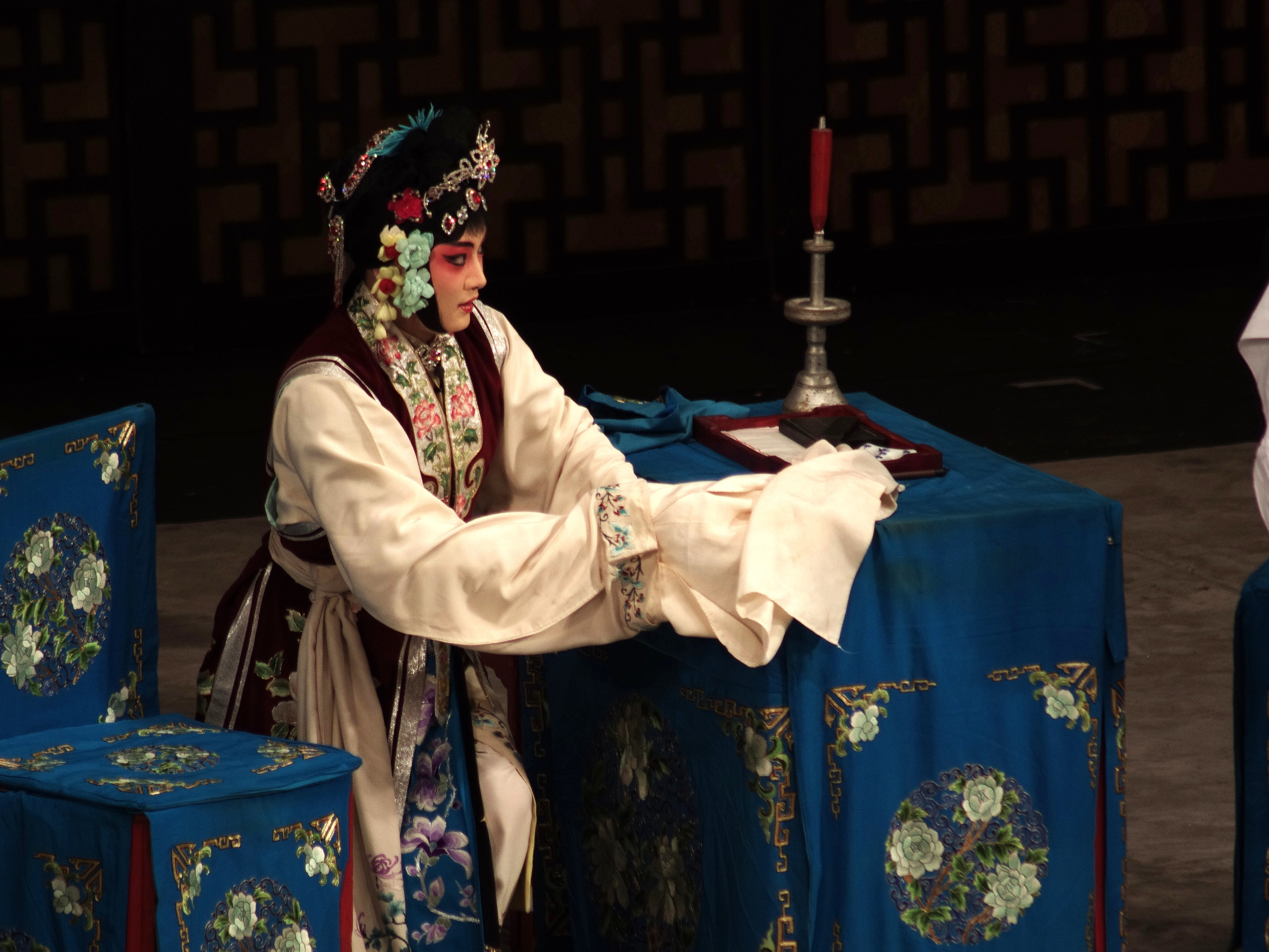 A Peking opera performance in Tianchan Theatre starring Yao Zhongwen (姚中文) as Song Jiang